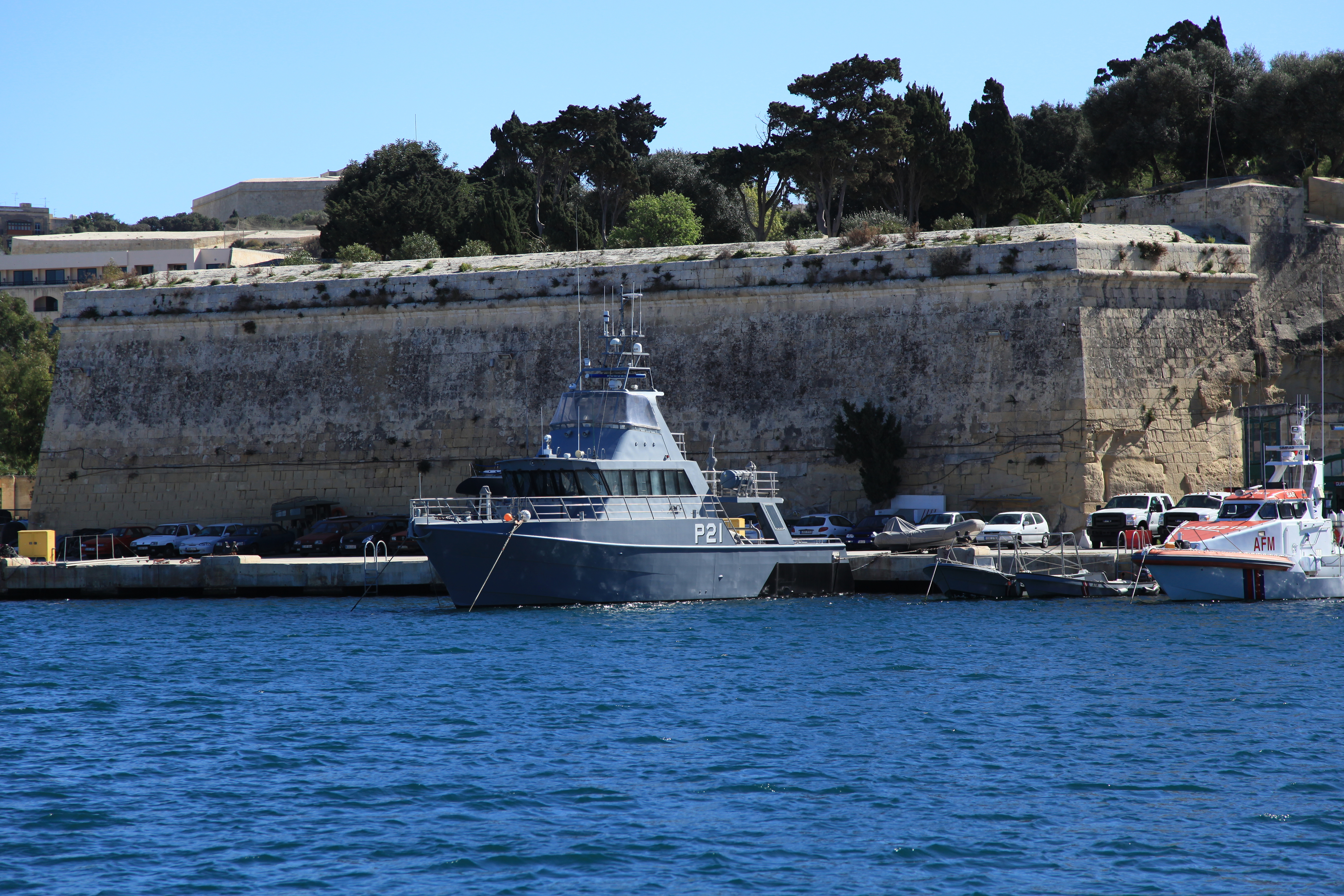 View from a Malta sightseeing two harbours cruise boat to Triq Vincenzo Dimech in Floriana, Malta